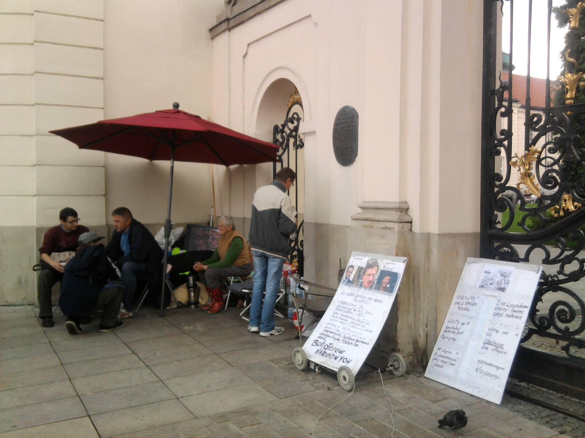 Cross in front of the Presidential Palace in Warsaw after Smolensk plane crash - camp of "cross' defenders"